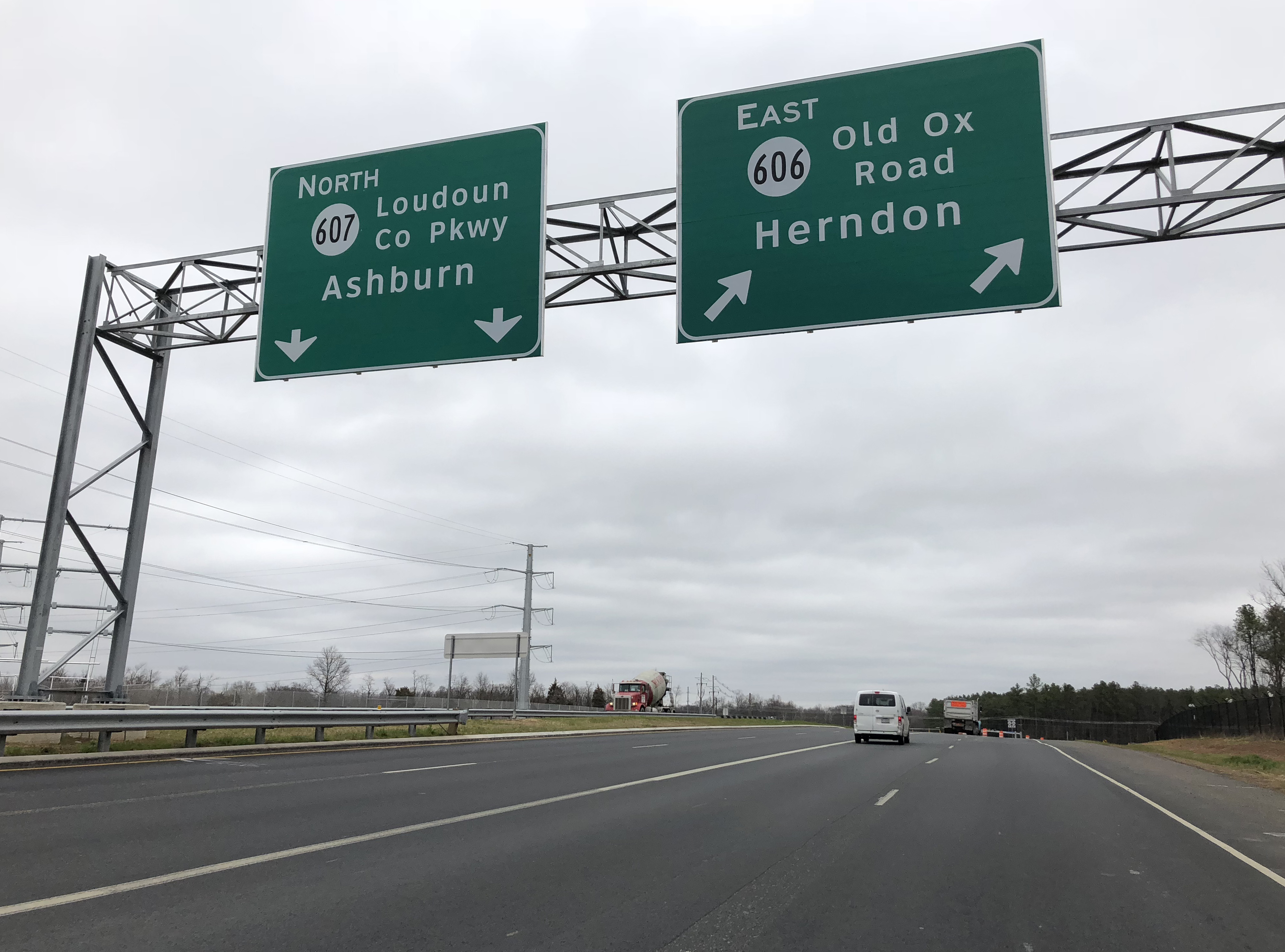 View northeast along the Loudoun County Parkway (Virginia State Route 606) where it becomes Virginia State Route 607 and Old Ox Road (Virginia State Route 606) diverges to the east in Arcola, Loudoun County, Virginia